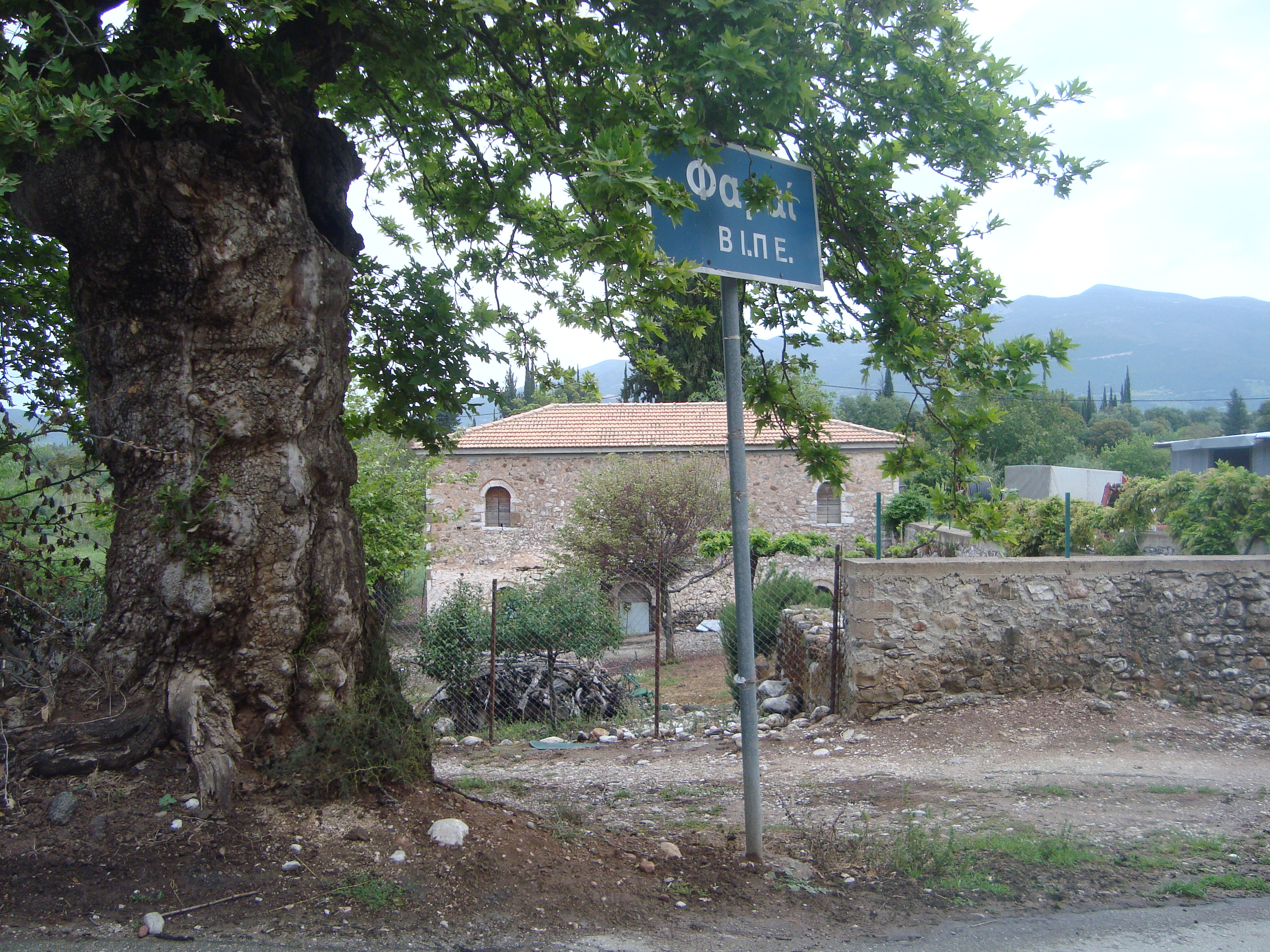 Prevedos Village old Gianikouras Inn in Acahea Greece